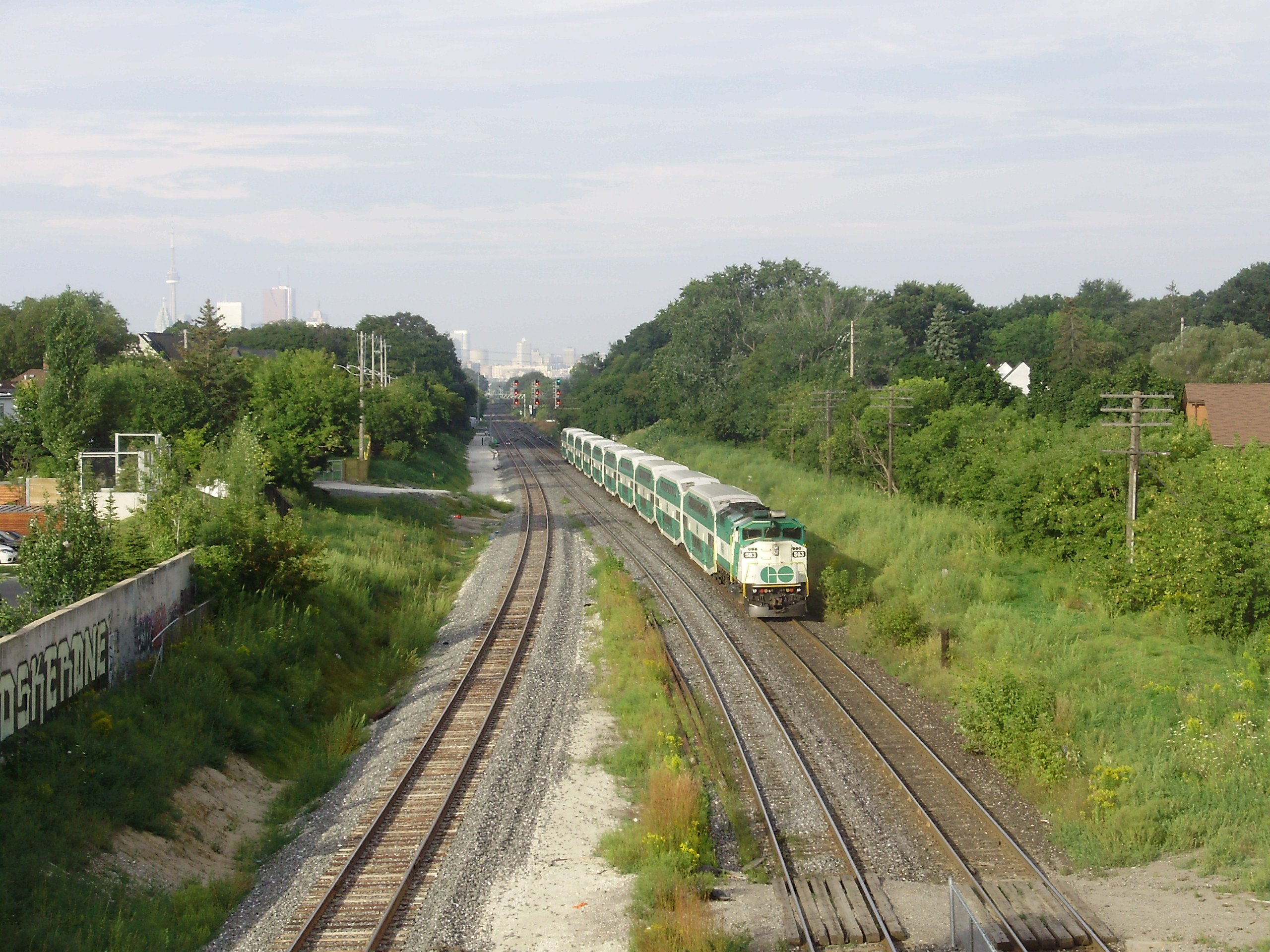 GO Transit's locomotive #563 pushes its Stouffville line train through Danforth GO Station, westbound to downtown Toronto from Lincolnville. Photographed from the Main Street bridge, looking west.